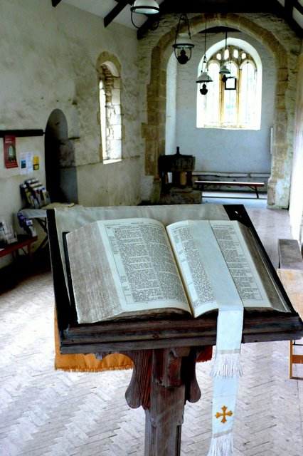 William Barnes' Last Stand, Whitcombe Church, near to Whitcombe, Dorset, Great Britain. The Dorset poet who was a friend of Thomas Hardy preached his first and last sermons here. Bible stand and view towards west end.